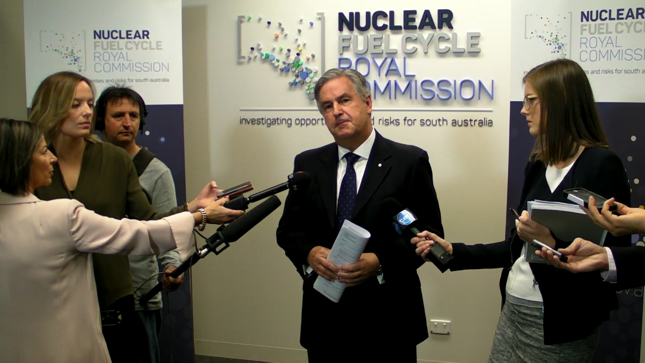 Nuclear Fuel Cycle Royal Commission press conference with Kevin Scarce, Adelaide, South Australia